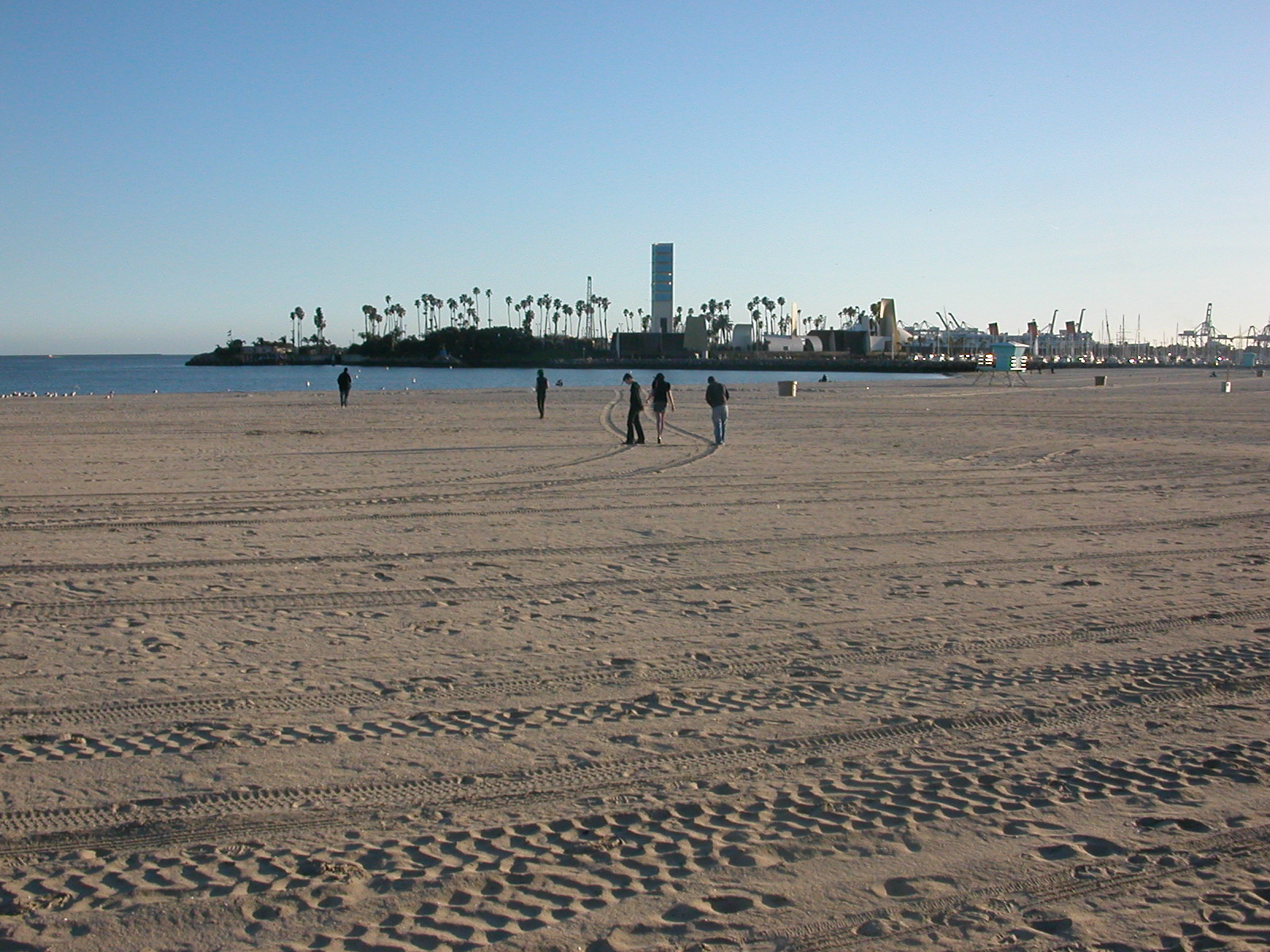 Beach in Long Beach, CA with oil derrick island and ships in harbor in background